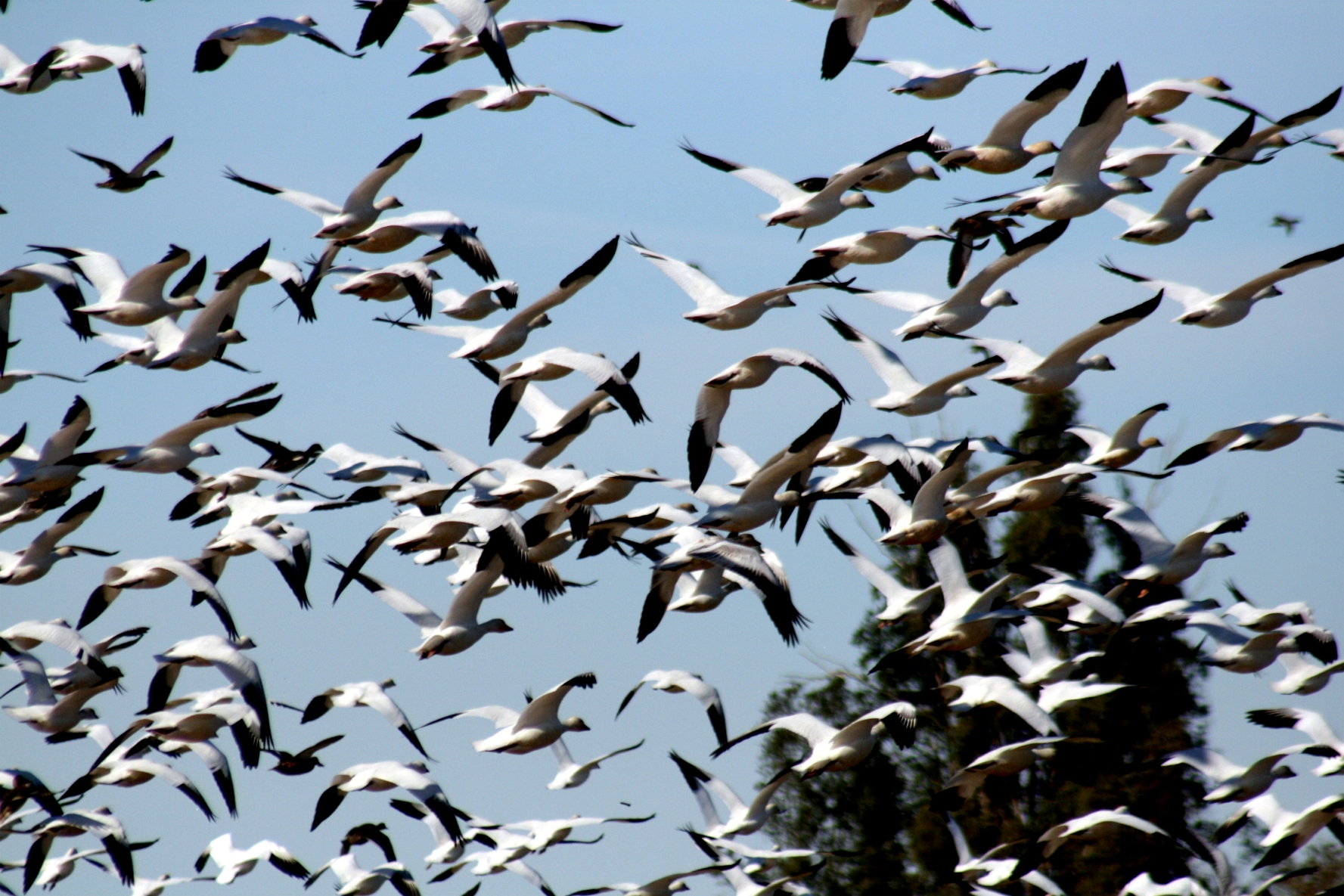 Snow geese, Anser caerulescens at Sacramento National Wildlife Refuge